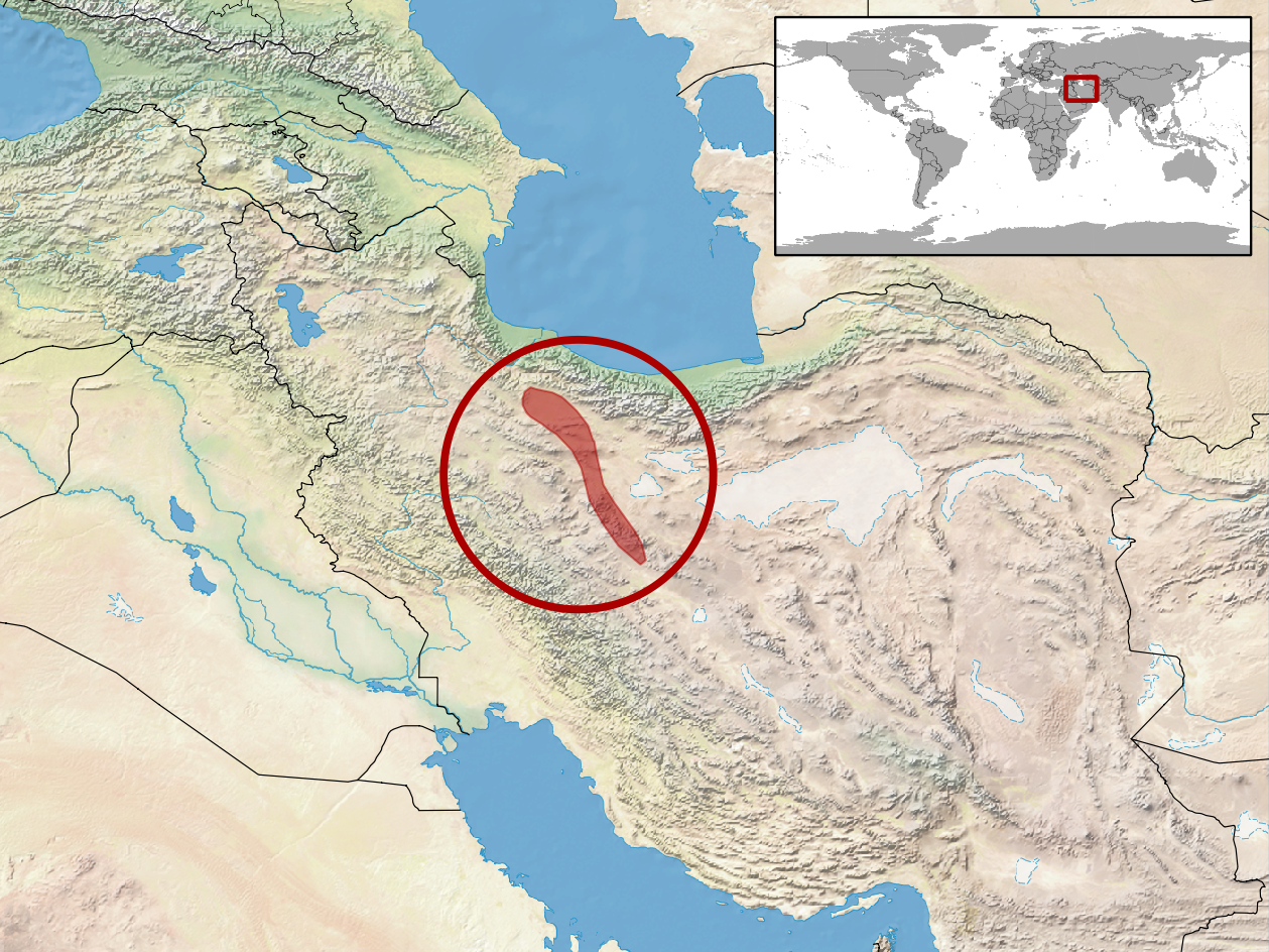 geographic distribution of Bunopus crassicauda (Native: Iran, Islamic Republic of)